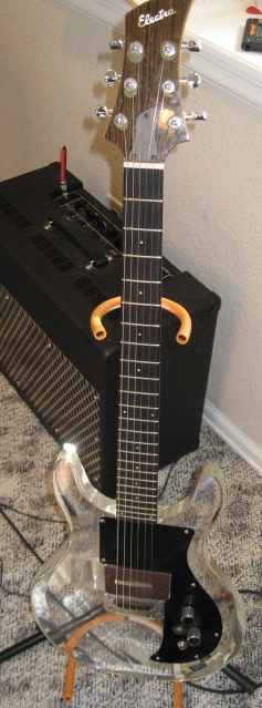 An example of an Electra guitar, made of clear plexiglass, with modified pickguard, otherwise identical to the one Leslie West used to play slide in the 70s. This guitar is often mistaken for the Dan Armstrong model from which it was copied.